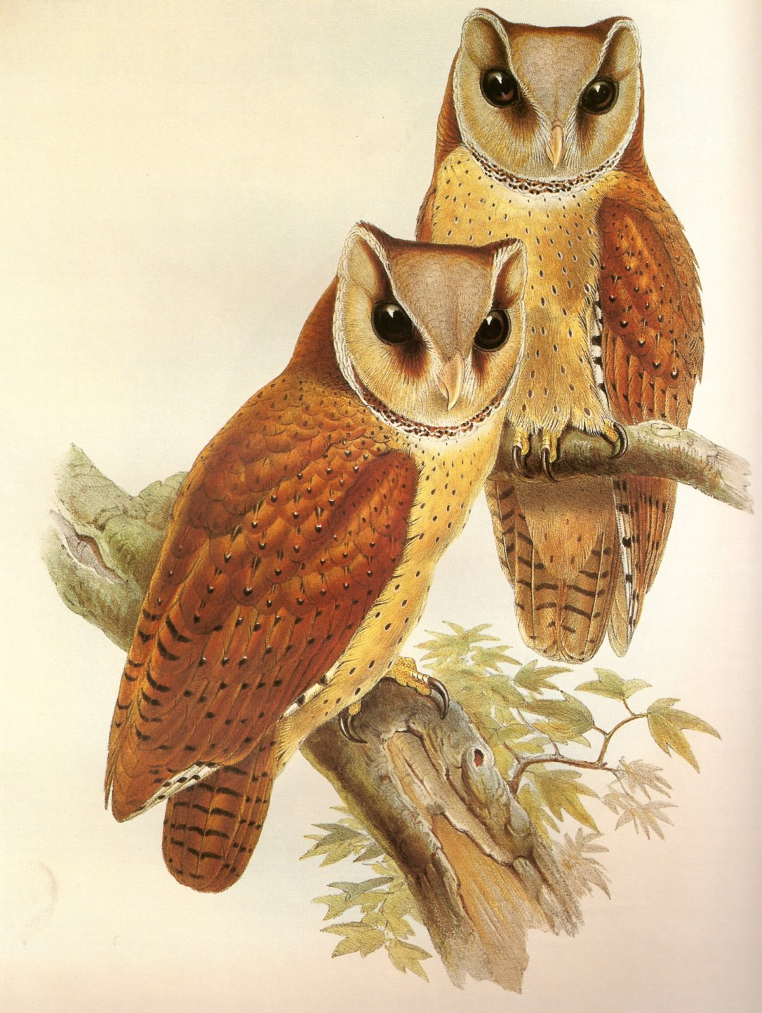 Oriental Bay Owl (Bay Owl) Phodilus badius (Horsfield)